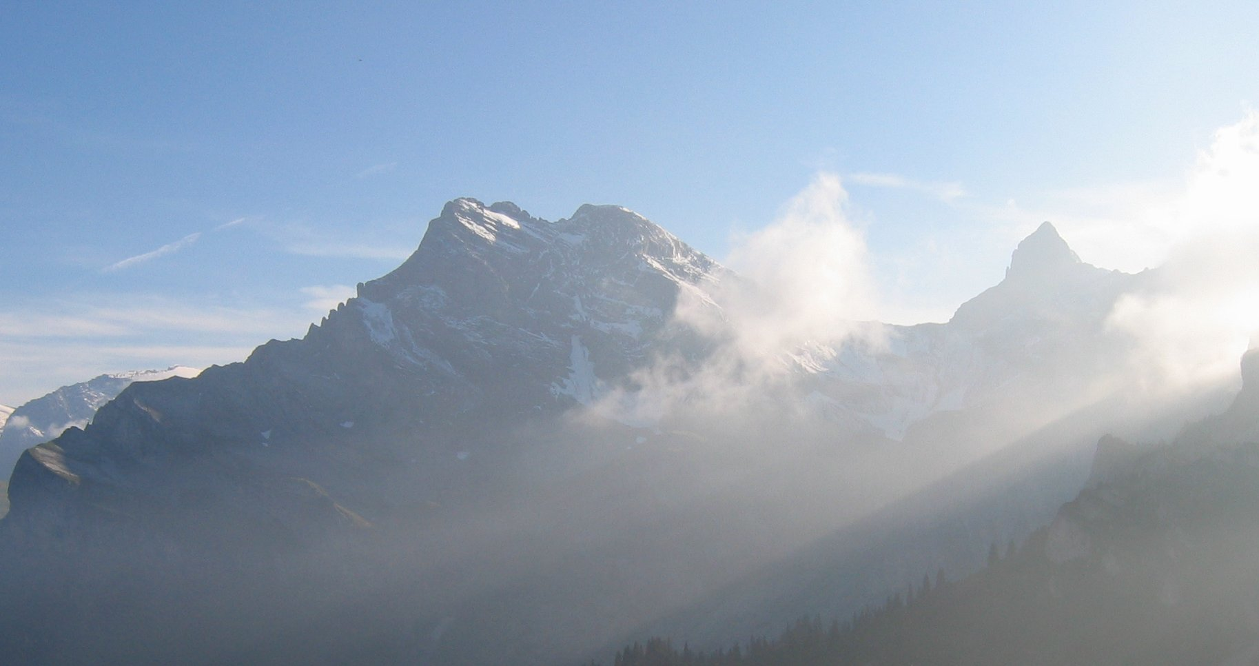 The Ortstock (alt 2716,5m) and the Höch Turm (alt 2666m) in the Glarus Alps, seen from Gumen in Braunwald